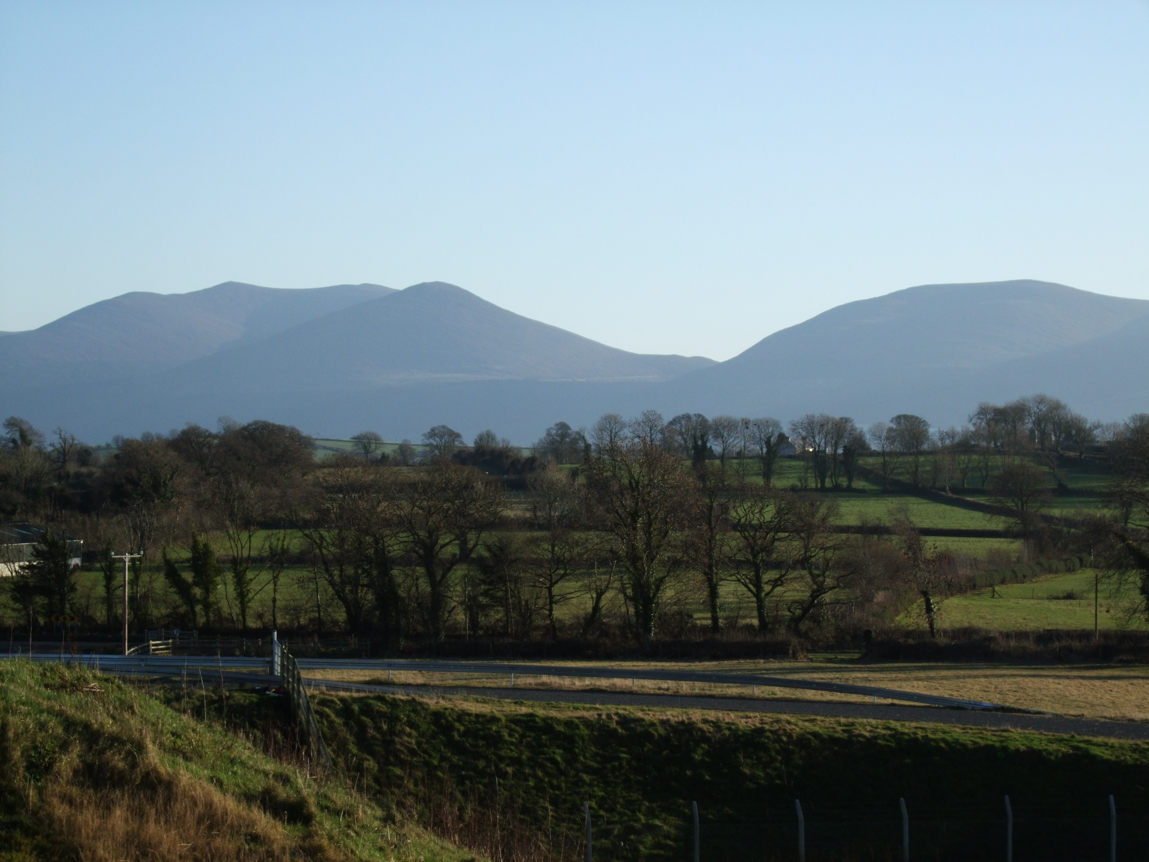 The Knockmealdowns off the R639